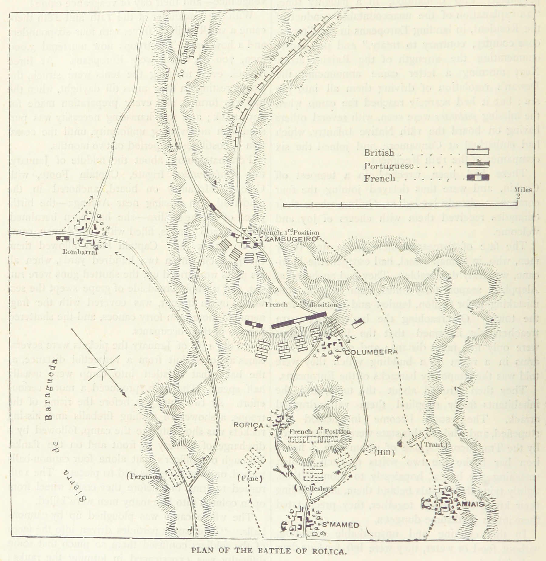 A map of the 1808 Battle of Roliça.